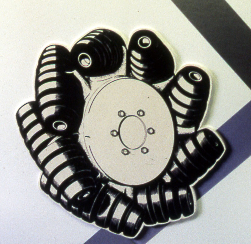 Photograph taken by Euchiasmus (me) on a conference exhibition stand which featured an electric wheelchair with Ilon wheels. There were display boards showing how the wheel worked and I took this photo of a diagram on one of the boards.